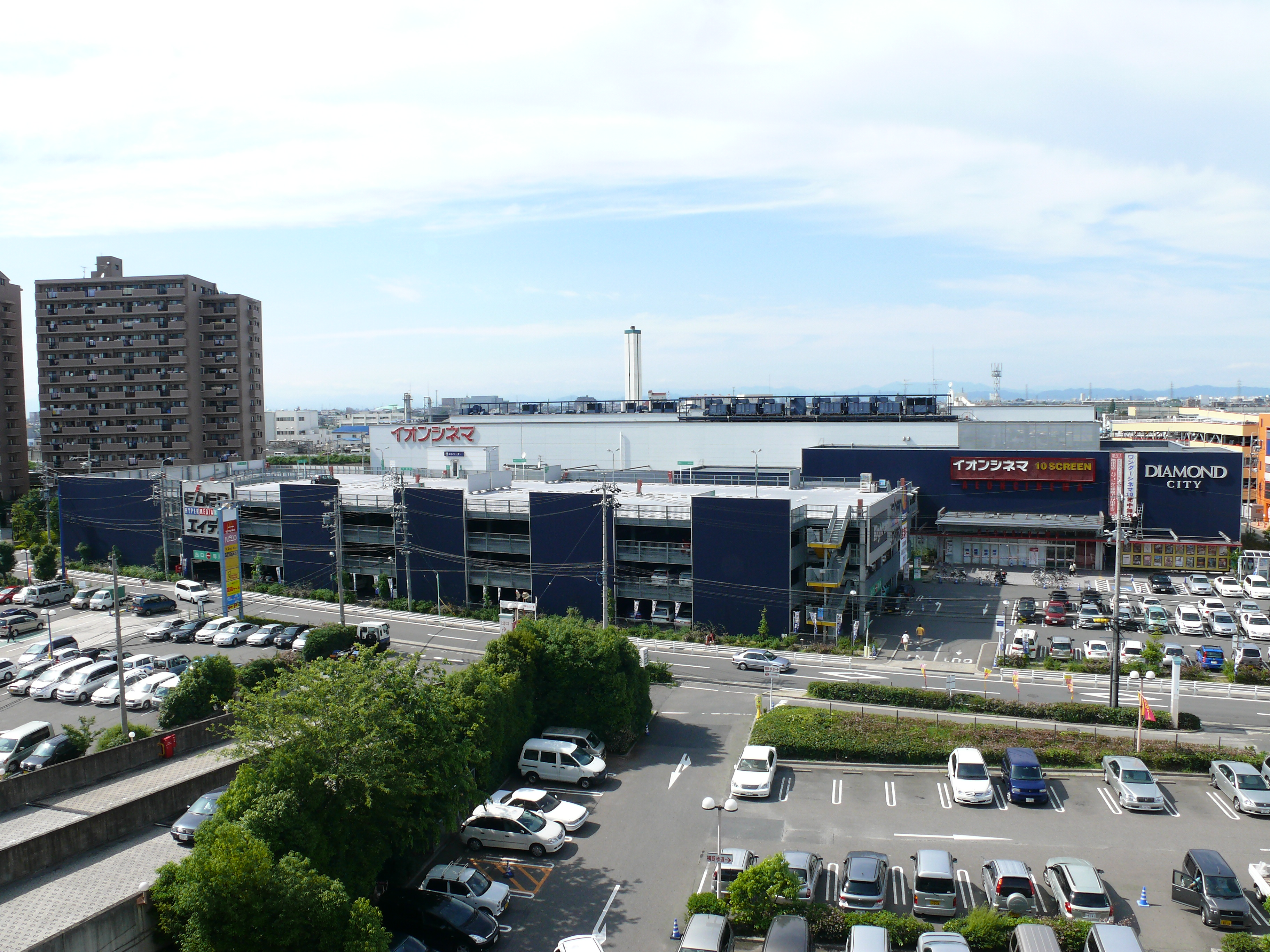 Diamond City of Wonder City Shopping Center.